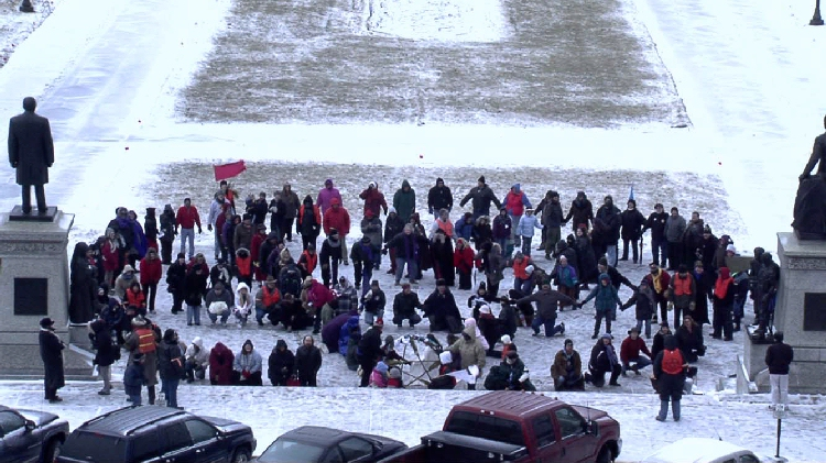 Wiccan event in the US. Own work by Ycco.